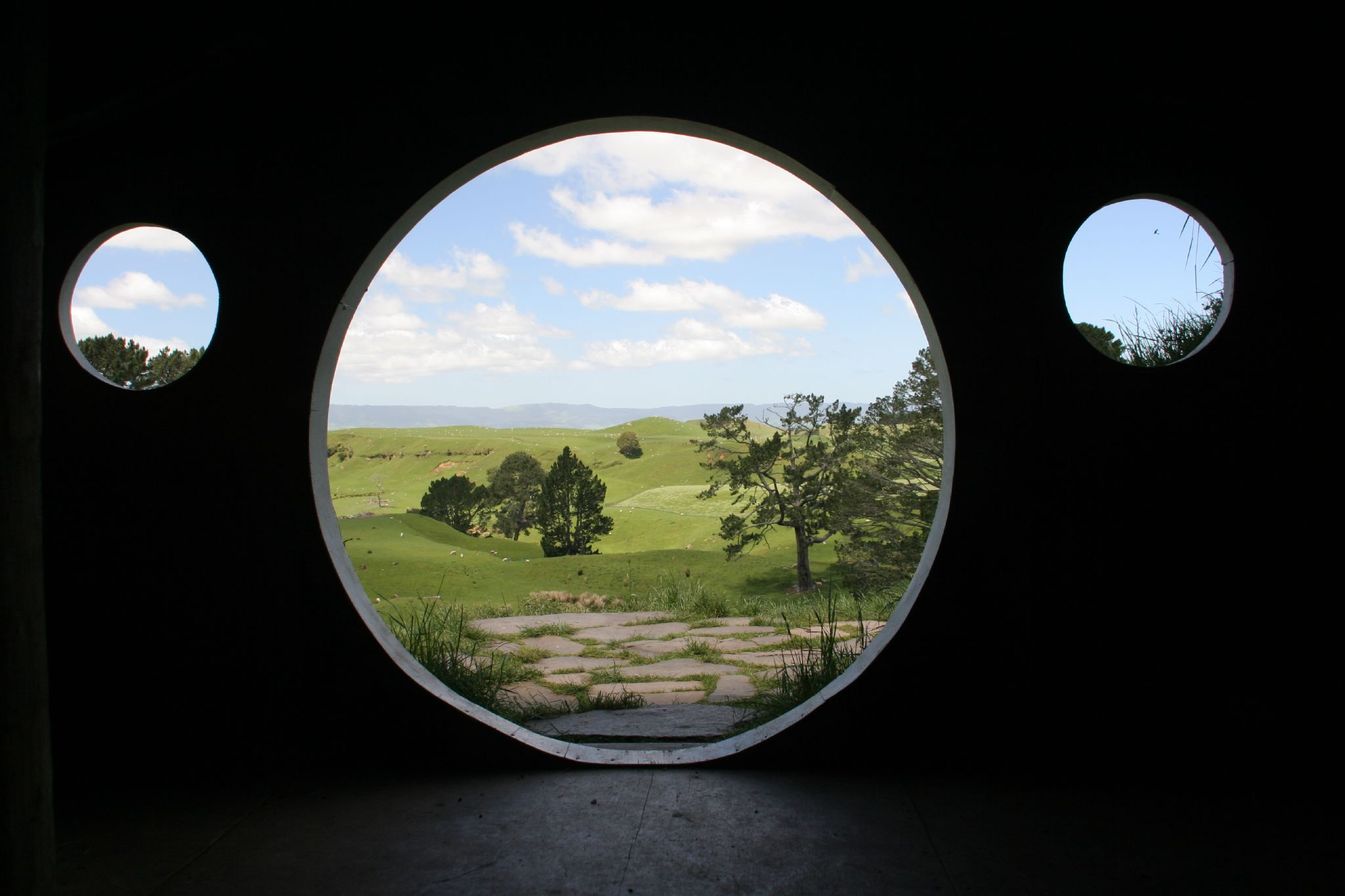 From inside on of the hobbit holes, on location at the Hobbiton set, as used in the Lord of the Rings films.